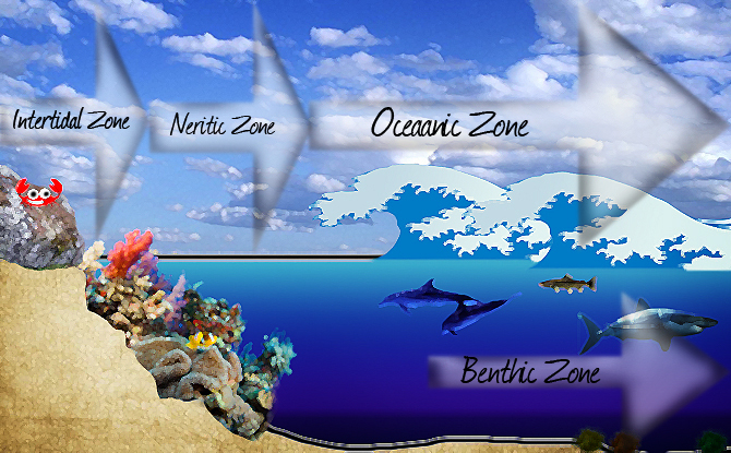 A diagram of the zones of the ocean long ways. It shows the zones Intertidal, Neritic, Oceanic, and Benthic. This work of art is under a Creative Commons Attribution 3.0 license.